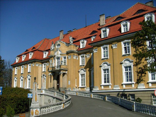 Palace in village Kochcice in Silesia.